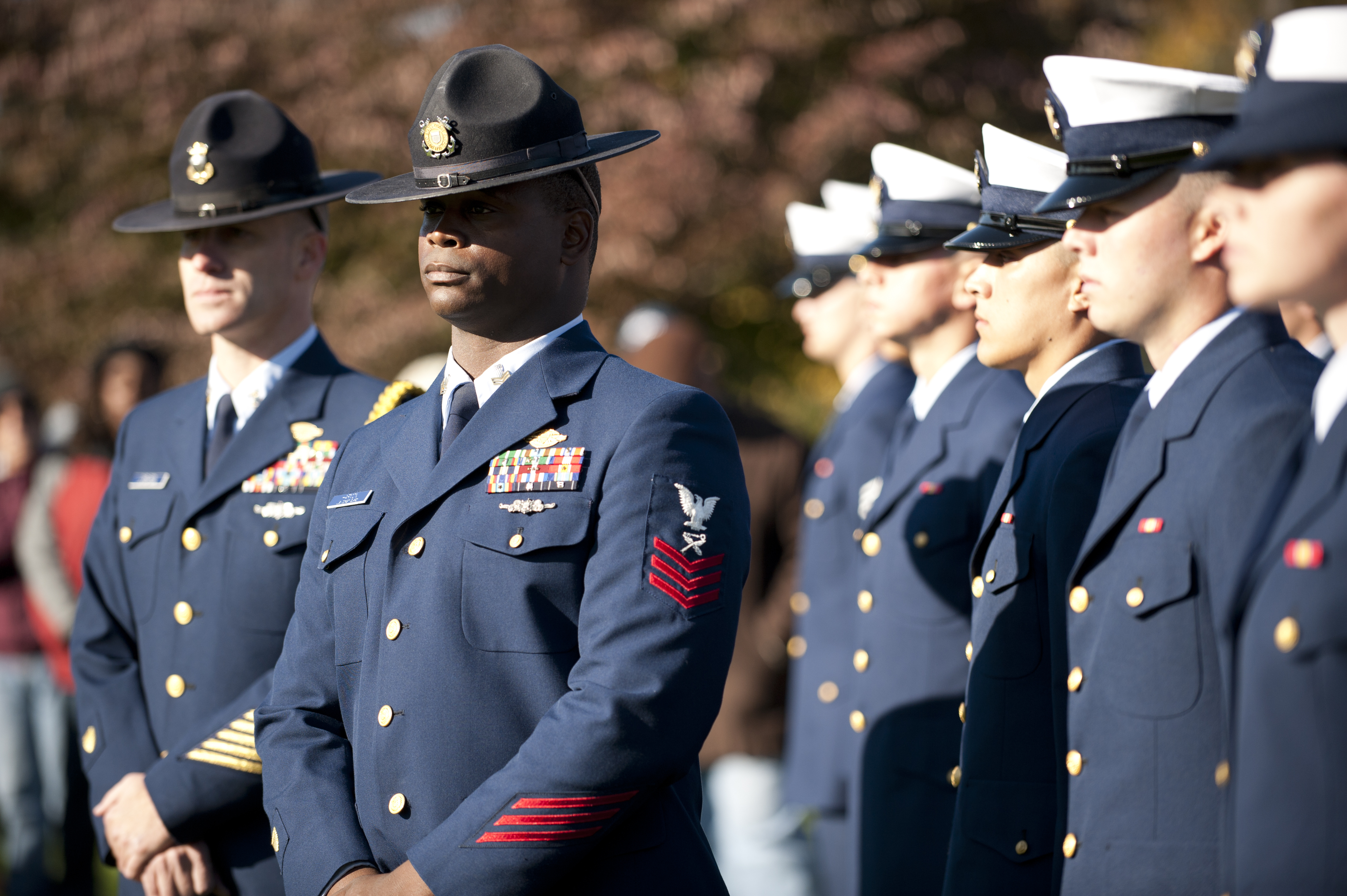 ARLINGTON, Va.- Coast Guard Petty Officer 1st Class Harmon (CENTER) stands at parade rest in front of his boot camp company during the annual Flags Across America event at Arlington National Cemetery, Saturday, November 5, 2011. The recruit companies visited Arlington National Cemetery for their one day of off-base liberty, which is their only break in an eight-week boot camp at the Coast Guard-s Training Center in Cape May, N.J. (U.S. Coast Guard Photo by Petty Officer 2nd Class Etta Smith)